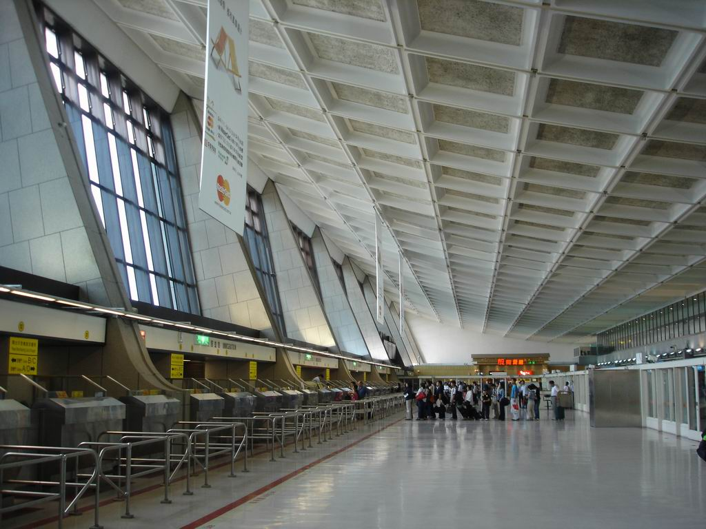 Chiang Kai-shek Airport Terminal 1 Customs Area.